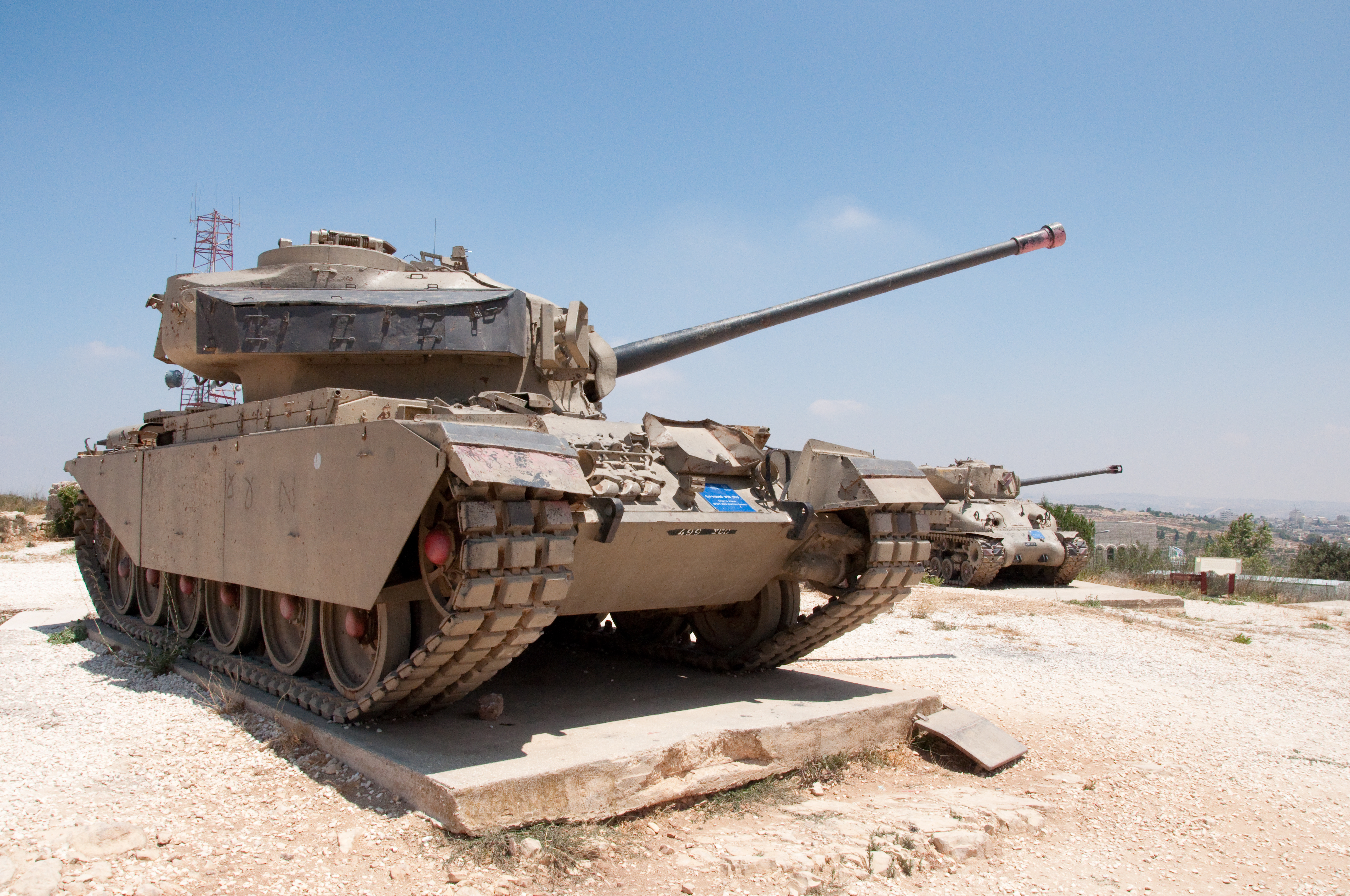 On the background there's a M51 Super Sherman